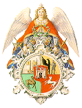 Plzeň's coat of arms.